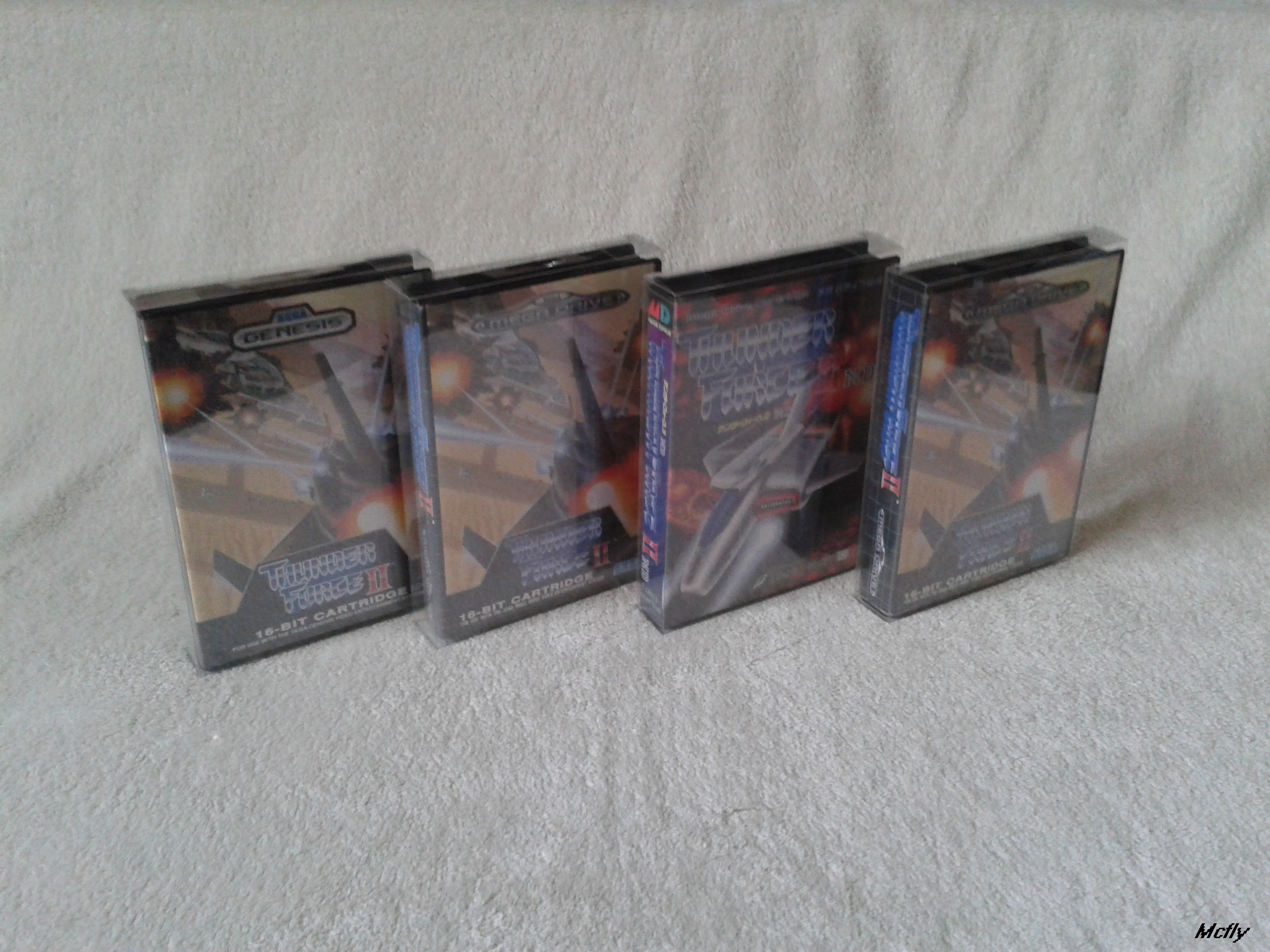 thunder force 2 sega megadrive